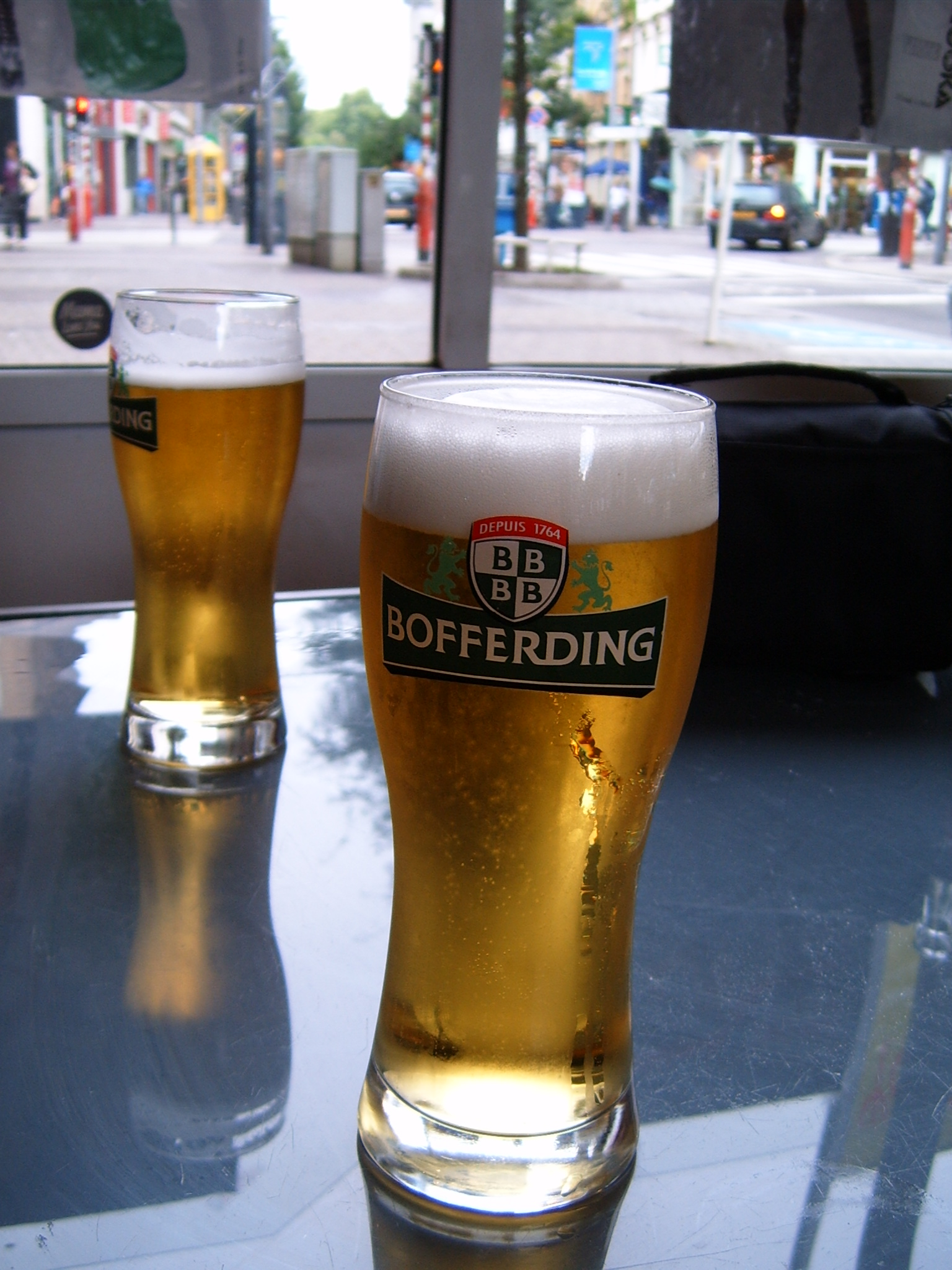 Two Bofferding Pils beers (produced by Brasserie Nationale), in Luxembourg in 2011.